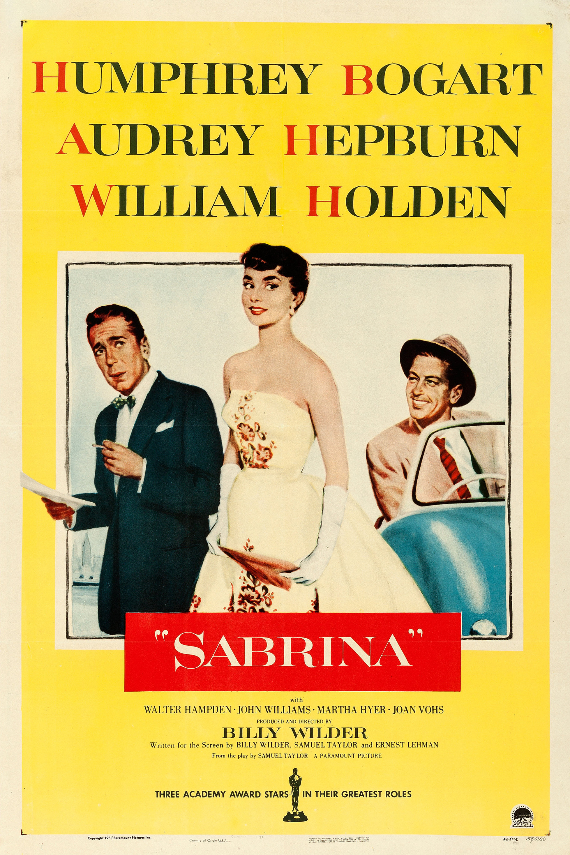 Theatrical release poster for the 1954 film Sabrina, an adaptation of Samuel A. Taylor's play Sabrina Fair.